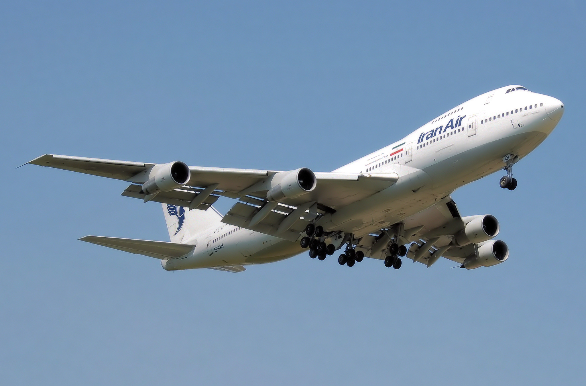 Iran Air Boeing 747-200 (EP-IAH) lands at London Heathrow Airport.